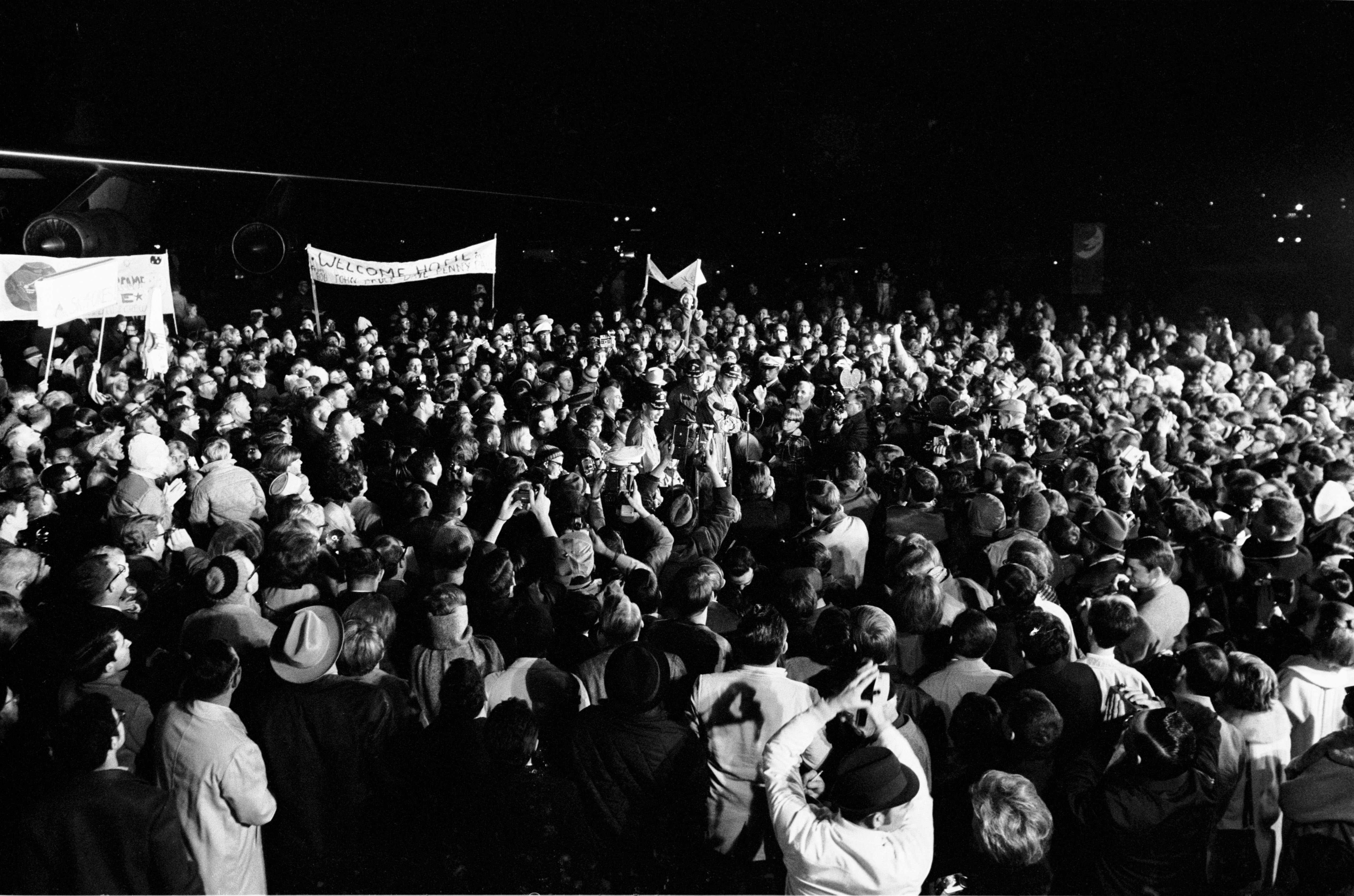 Although it was past 2 a.m., a crew of more than 2,000 people were on hand at Ellington Air Force Base to welcome the members of the Apollo 8 crew back home. Astronauts Frank Borman, James A. Lovell Jr., and William A. Anders had just flown to Houston from the pacific recovery area by way of Hawaii. The three crewmen of the historic Apollo 8 lunar orbit mission are standing at the microphones in center of picture. Photo Number: S69-16402 Date: December 29, 1968